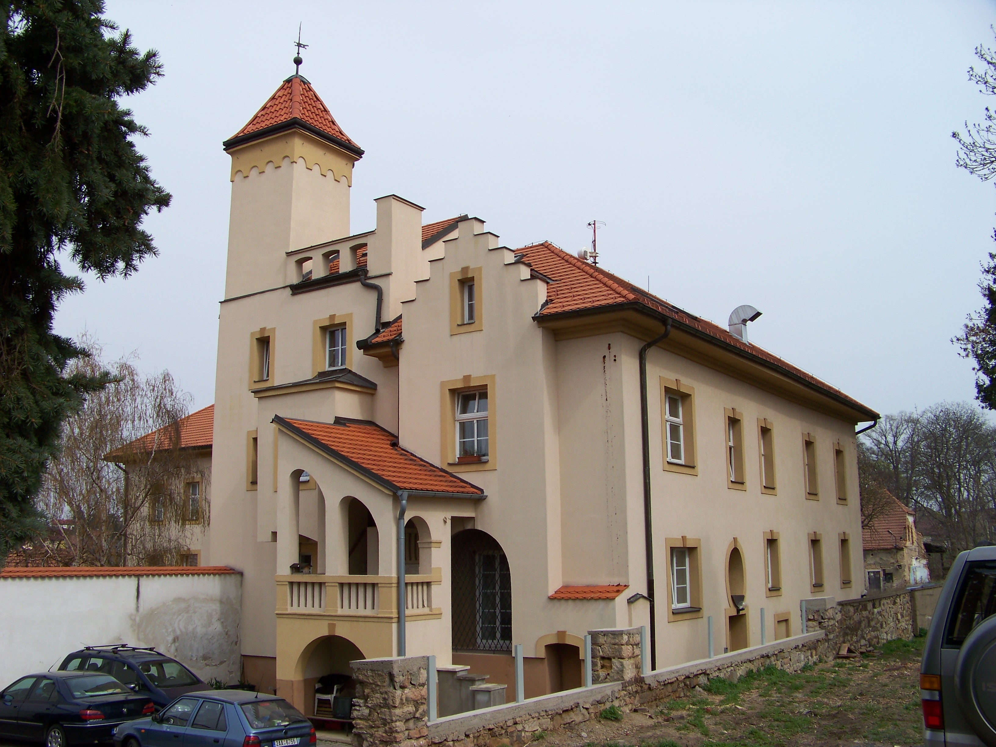 Prague-Lochkov, Czech Republic. Za ovčínem 1, a castle. - Google Maps - Google Earth